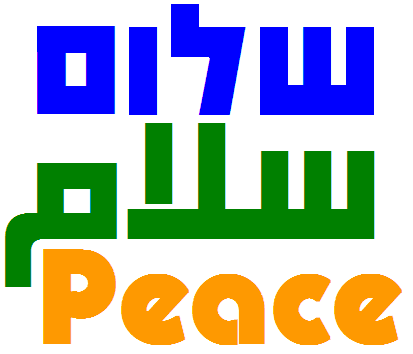 Trilingual peace graphic (Hebrew Shalom שלום [in blue], - Arabic Salam/Salaam السلام [in green]).